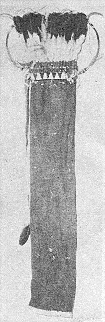 The war bonnet of Shoshone Mike Daggett found by the Nevada State Police posse on February 25, 1911 at Kelley Creek, Nevada following the Battle of Kelley Creek.